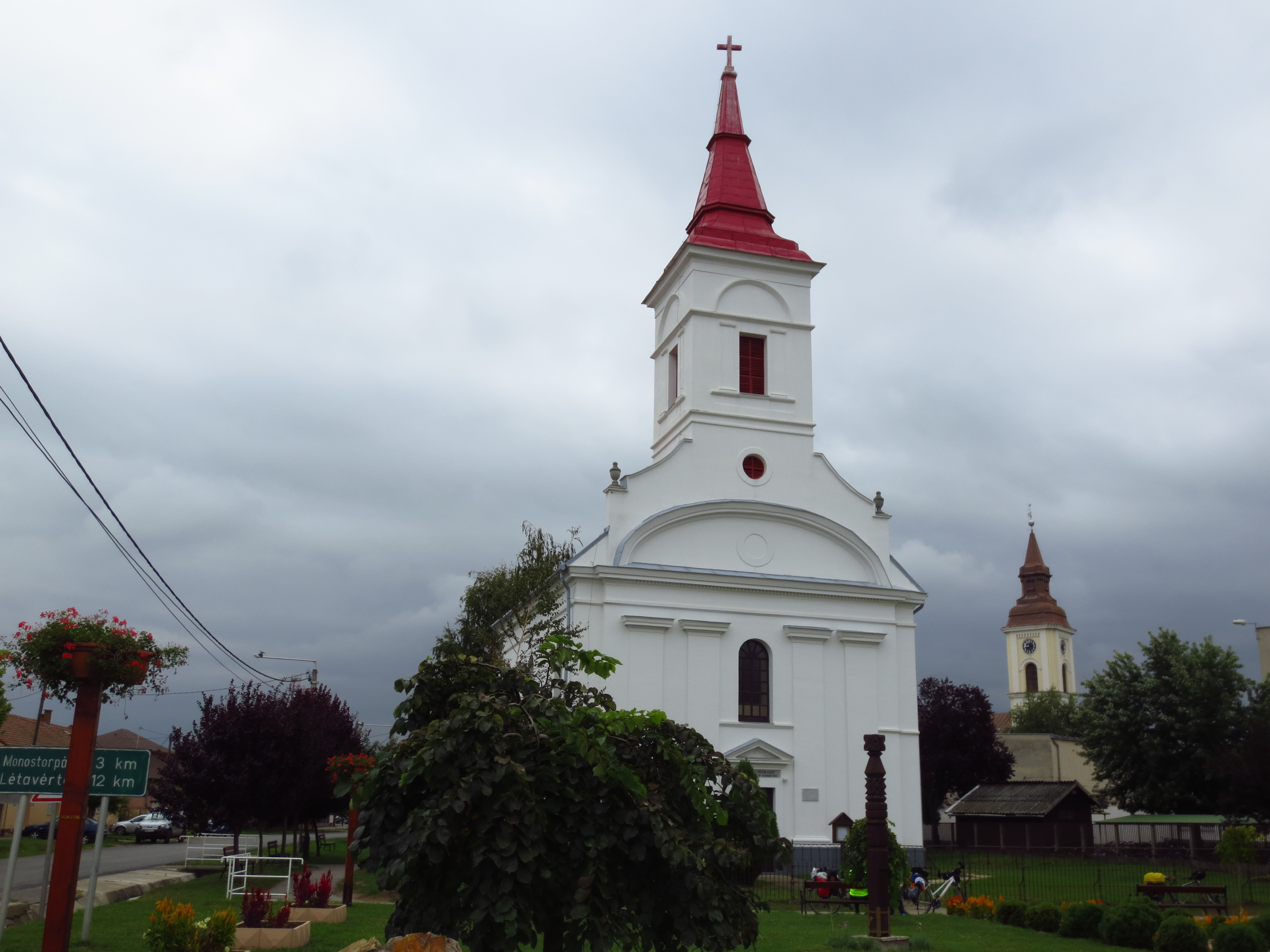 Church of Immaculate Conception in Hosszúpályi, Hajdú-Bihar County, Hungary. Reformed church in the background.